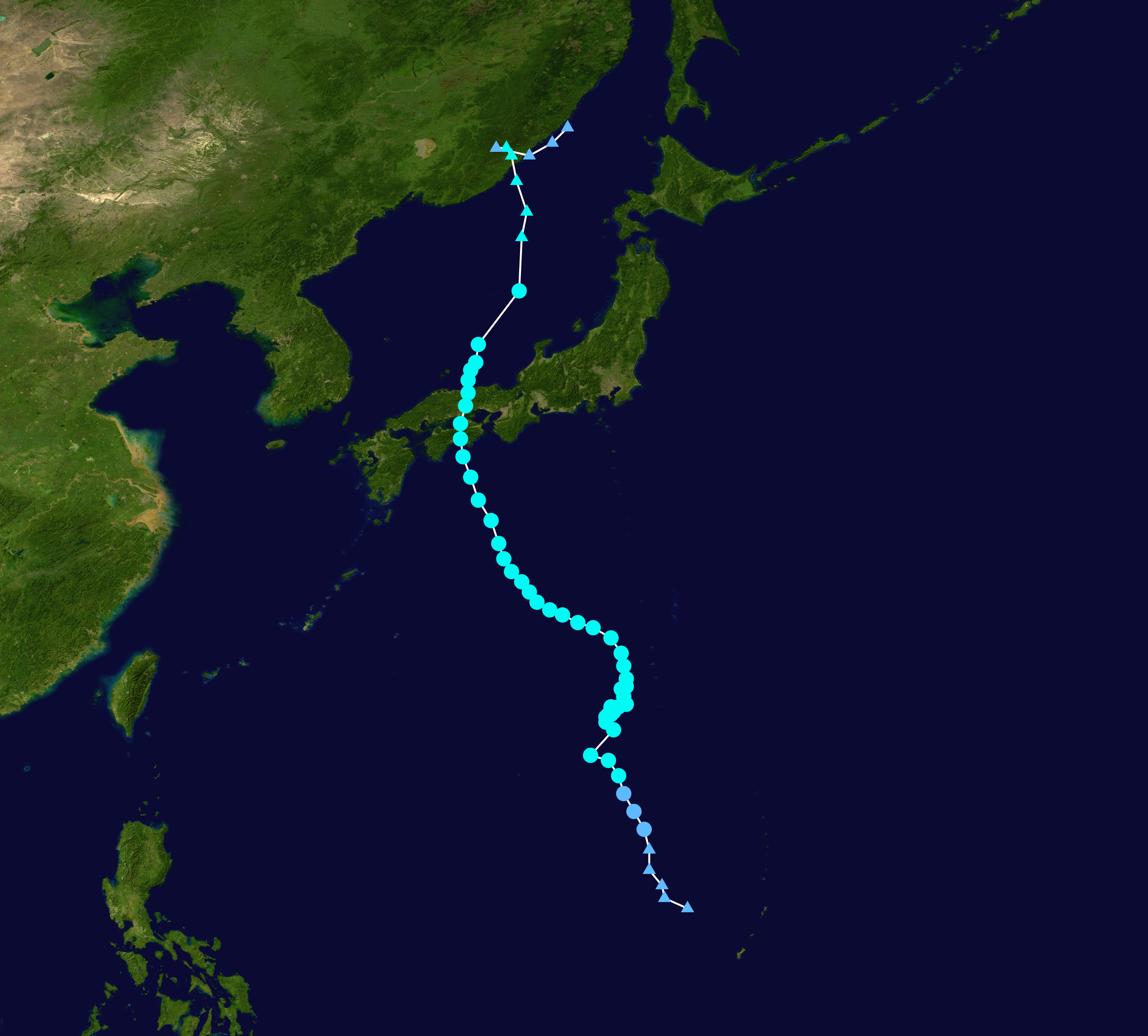 Track map of Severe Tropical Storm Talas of the 2011 Pacific typhoon season. The points show the location of the storm at 6-hour intervals. The colour represents the storm's maximum sustained wind speeds as classified in the Saffir–Simpson scale (see below), and the shape of the data points represent the nature of the storm, according to the legend below. Saffir–Simpson scale Tropical depression≤38 mph≤62 km/h Category 3111–129 mph178–208 km/h Tropical storm39–73 mph63–118 km/h Category 4130–156 mph209–251 km/h Category 174–95 mph119–153 km/h Category 5≥157 mph≥252 km/h Category 296–110 mph154–177 km/h Unknown Storm type Tropical cyclone Subtropical cyclone Extratropical cyclone / Remnant low / Tropical disturbance / Monsoon depression